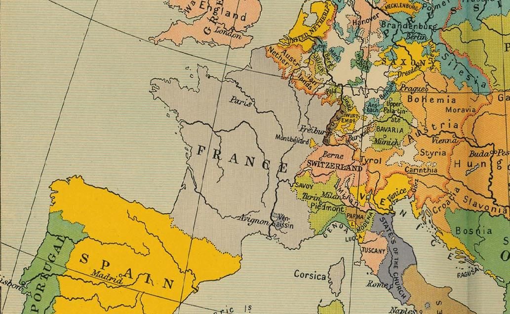 France in the year 1792. Featured in the Cambridge Modern History Atlas, in 1912.